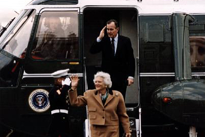 Barbara and George Bush